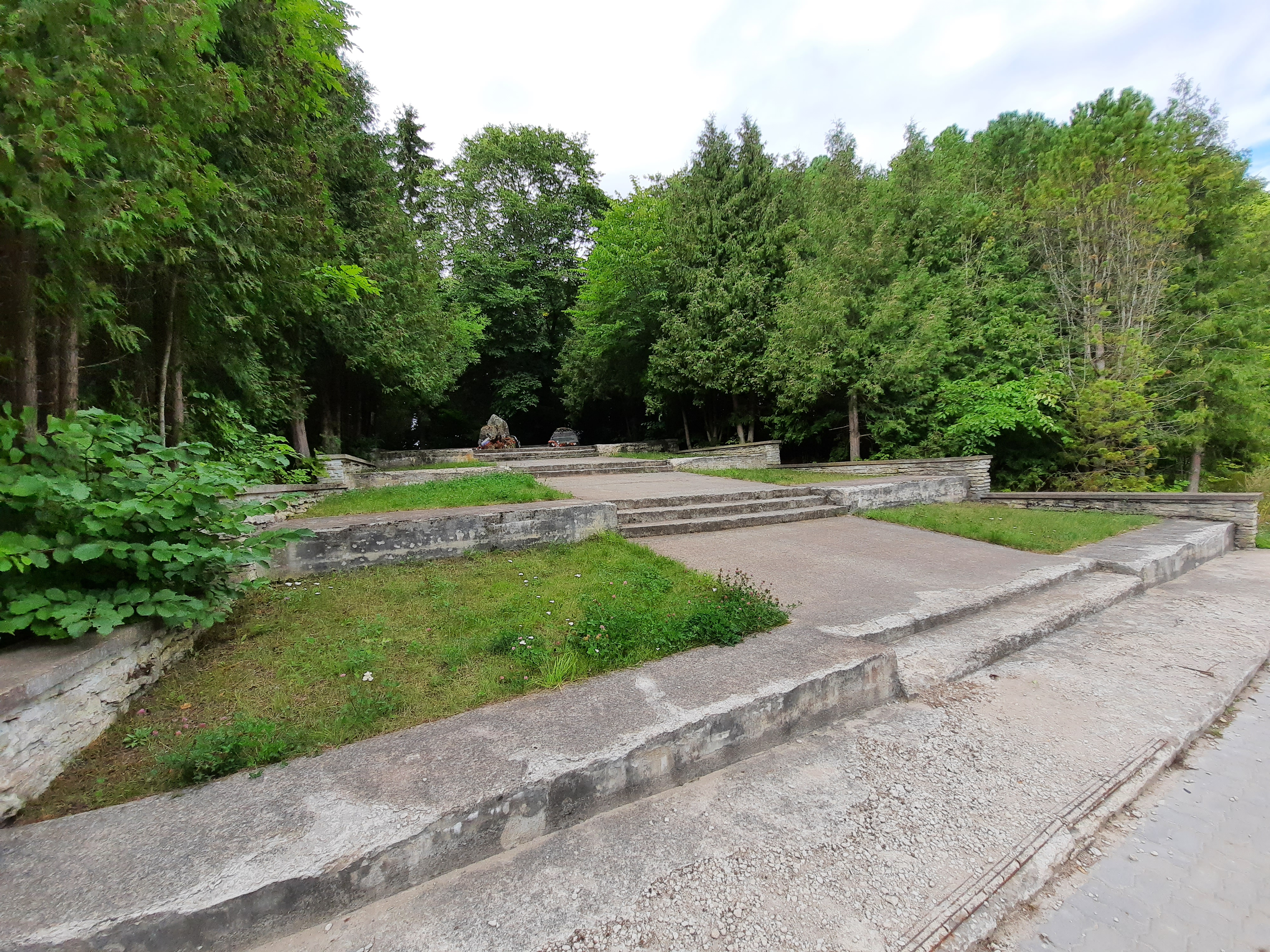 Soviet memorial near Meriküla